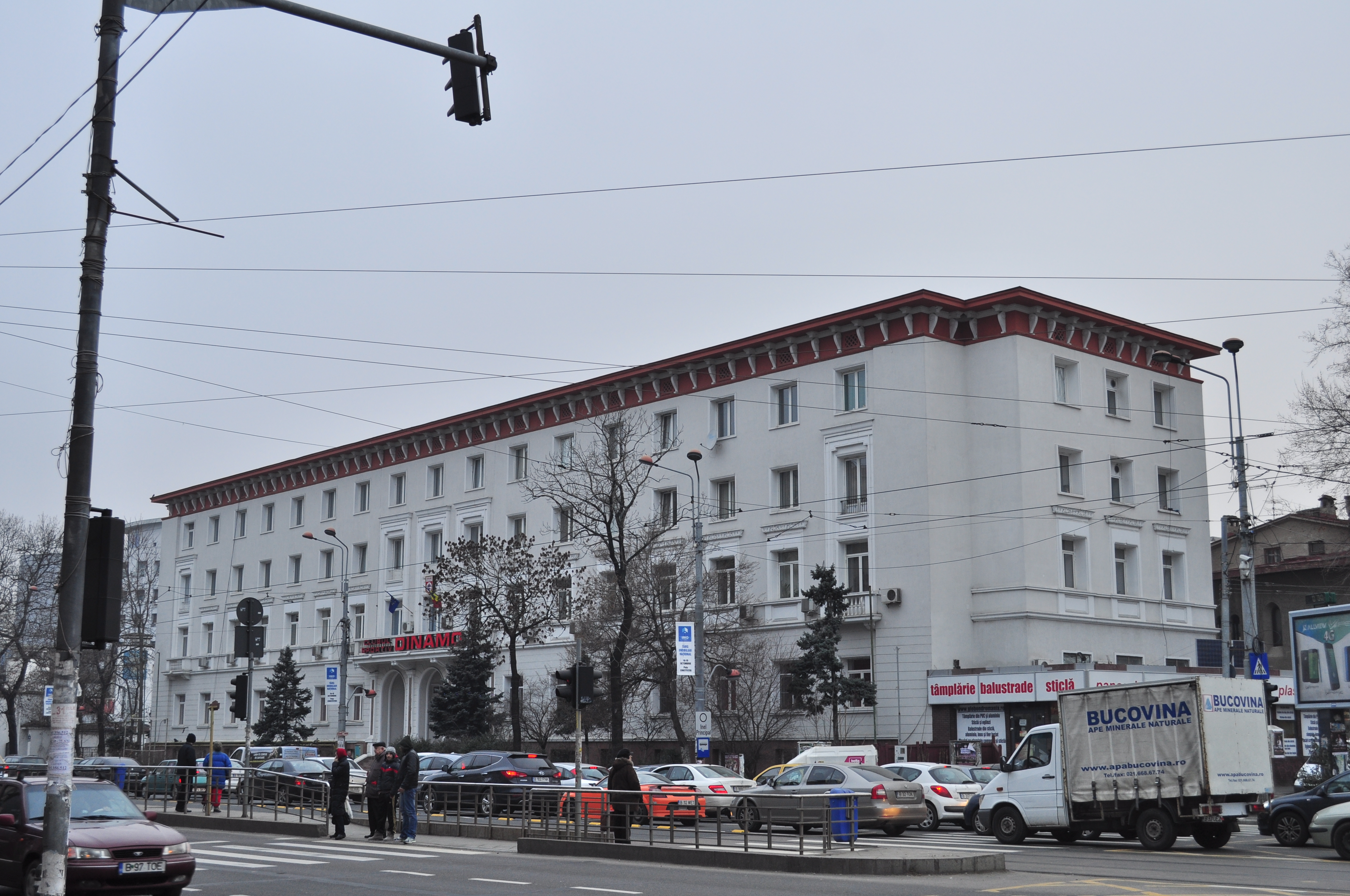 Clubul Sportiv Dinamo (CS Dinamo București), Bucharest Sector 2, Romania.